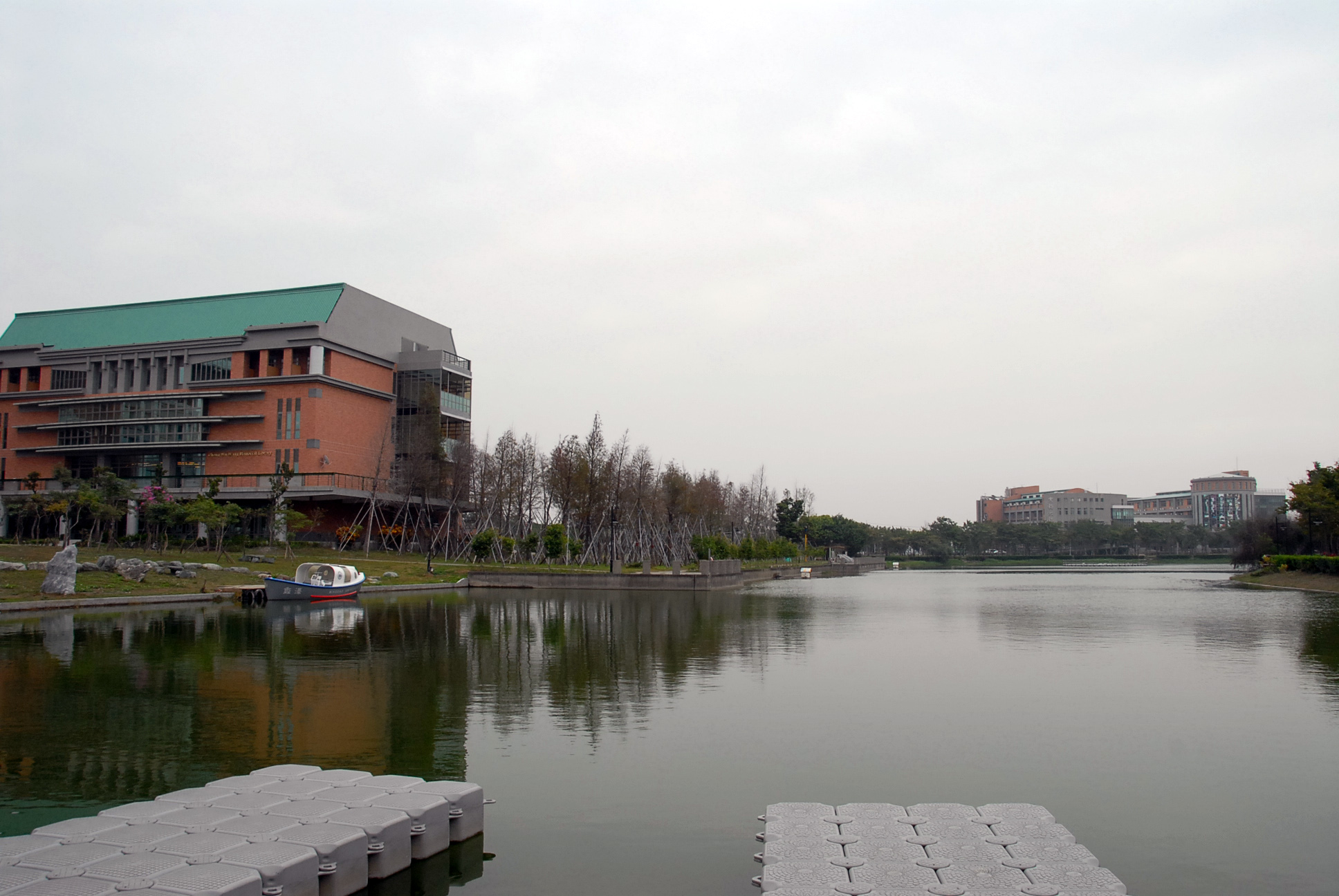 Campus of MingDao University in Taiwan.中文（台灣）: 明道大學